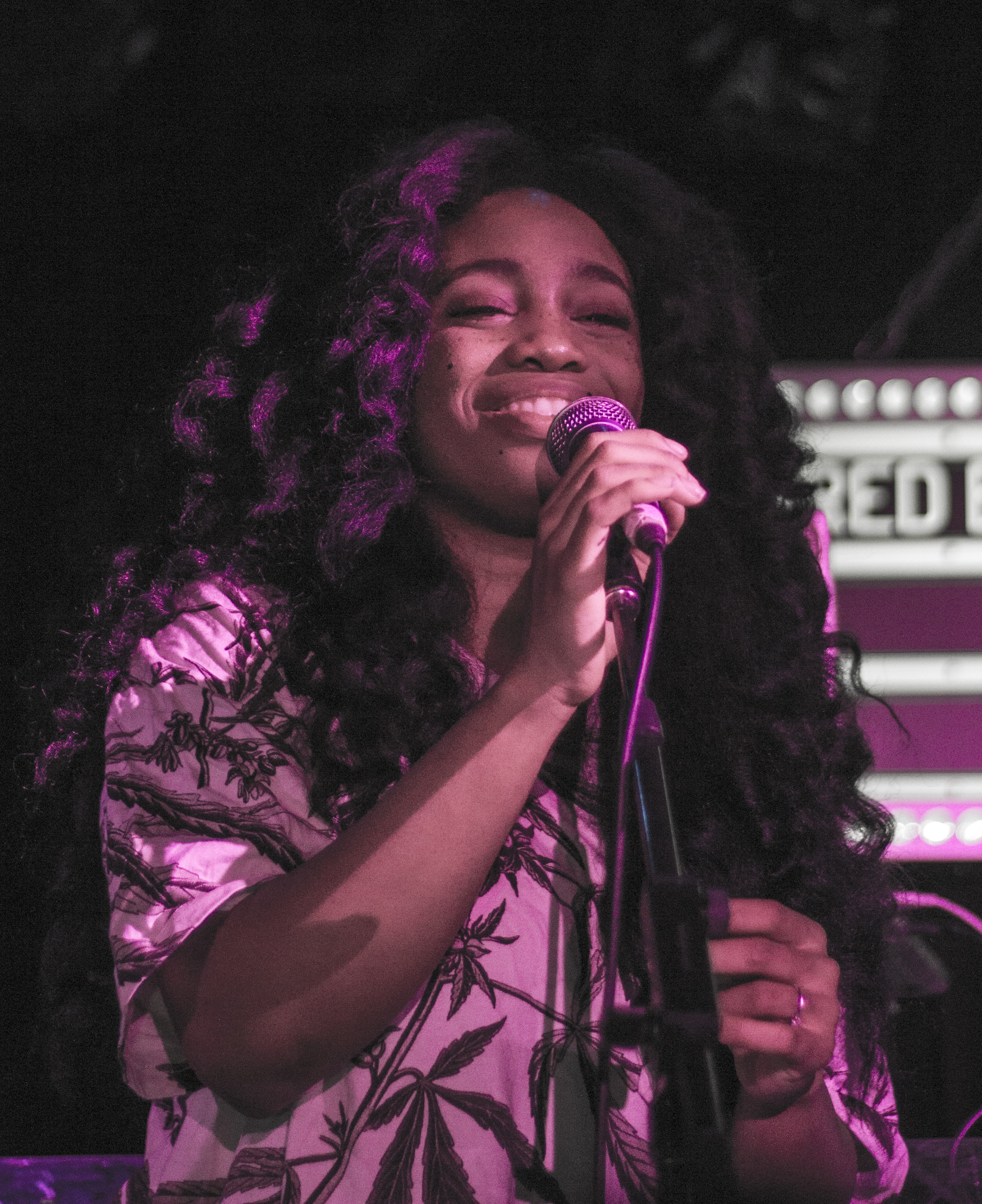 SZA performing in Toronto. Photograhy by Tiffany Komon for The Come Up Show.